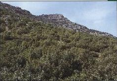 Typical view of forests in Kurdistan highlands. [1]